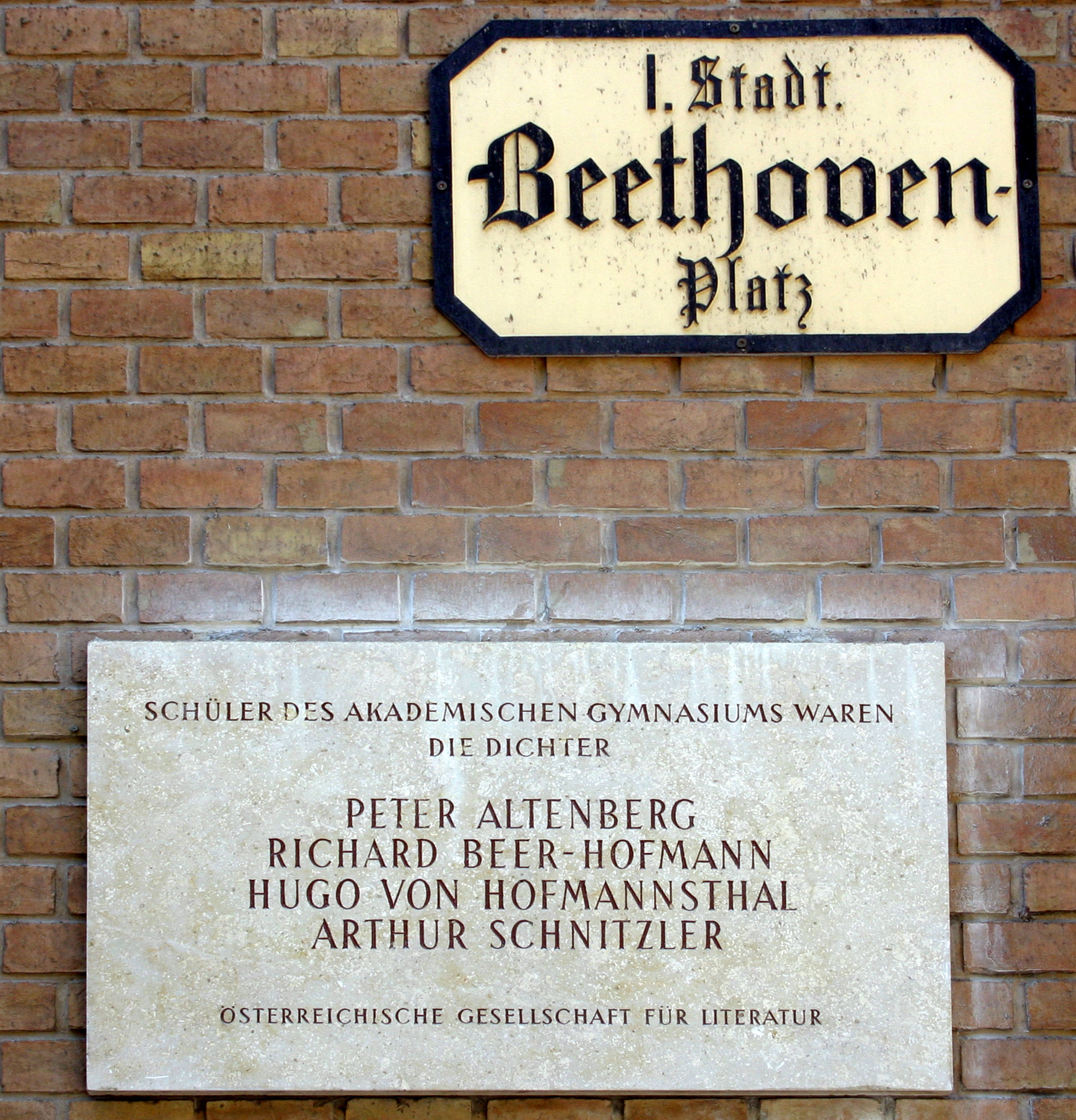 Akademisches Gymnasium, Vienna